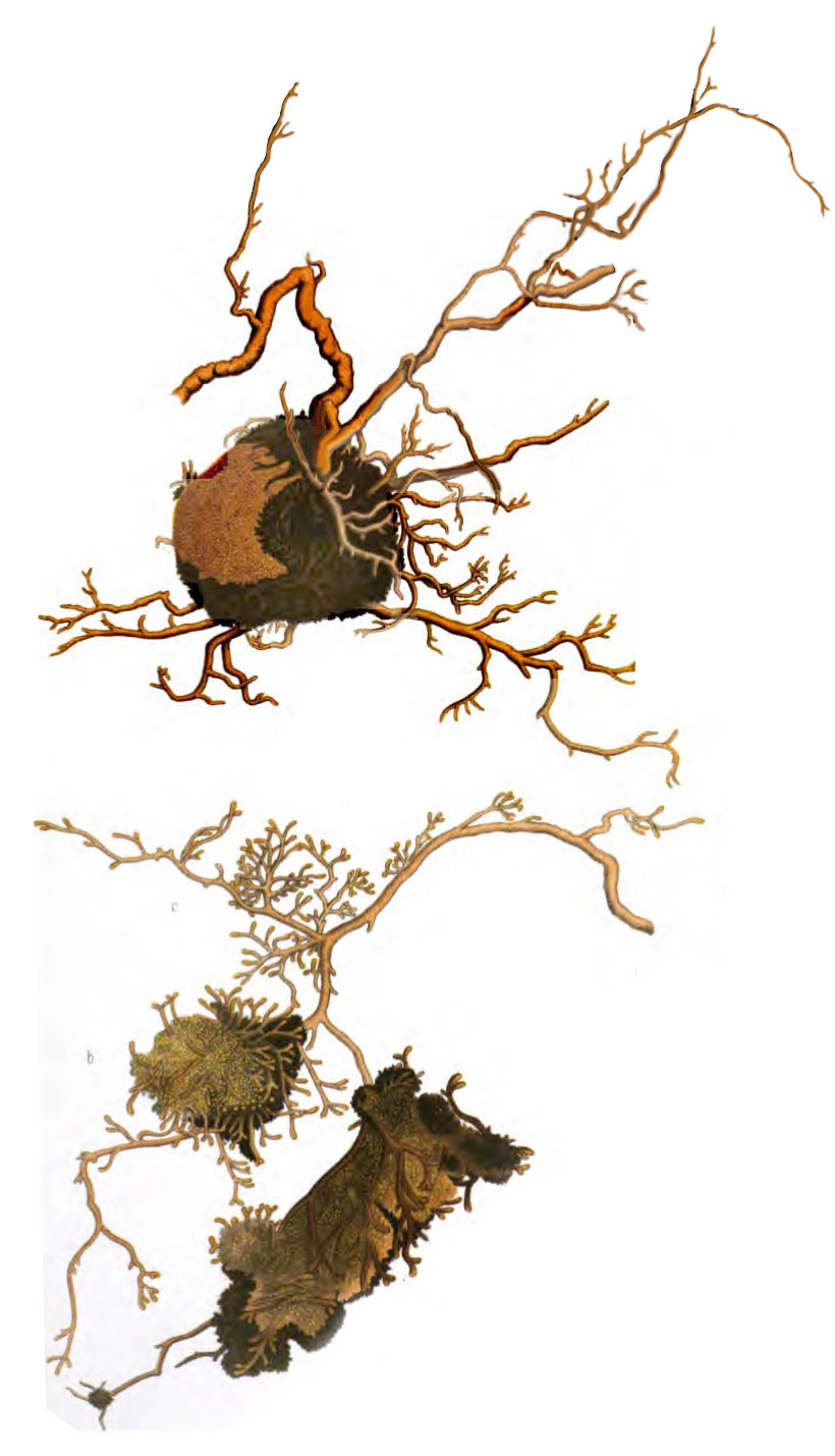 Elaphomyces from Rees & Fish, "Bau und Lebensgeschicte der Hirschtrüffel Elaphomyces", 1887